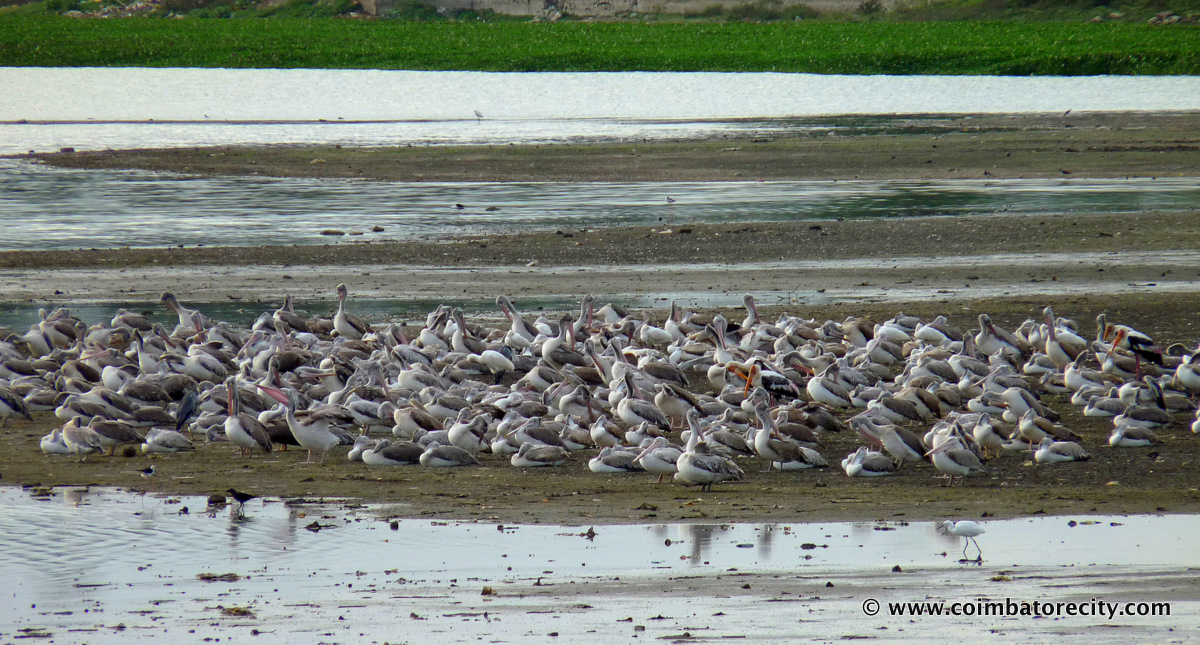 Pelicans Pod at Singanallur Lake, Coimbatore, Tamil Nadu, India